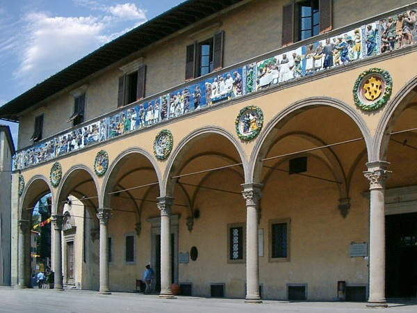 Pistoia, Ospedale del Ceppo Picture taken by user:Idéfix, july 2003